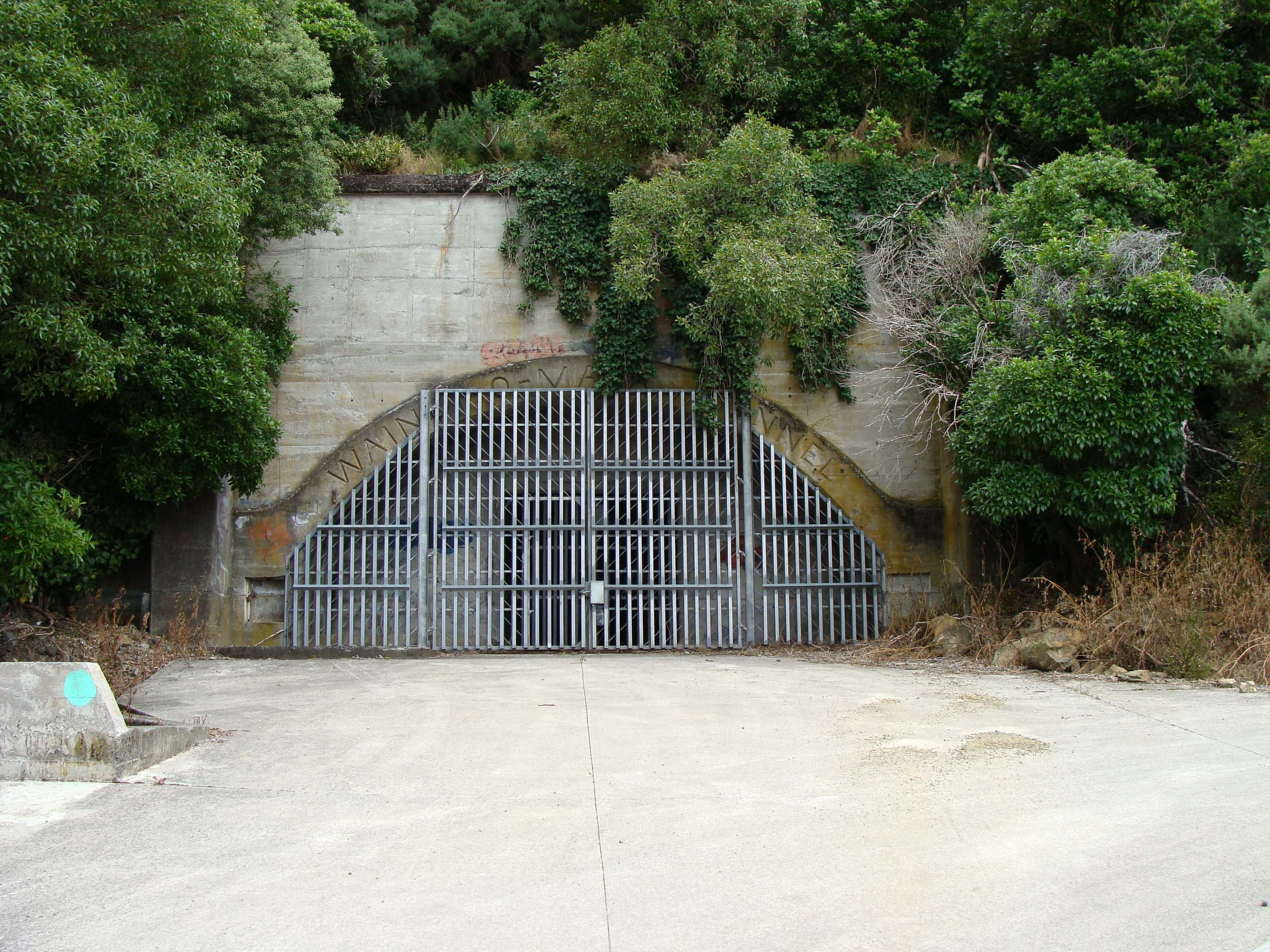 Hutt Valley portal of the Wainuiomata Tunnel. As the tunnel was never completed to the original specification, this portal was not excavated down to the intended depth for the laying of the roadway.